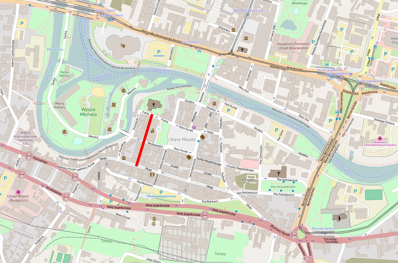 Jesuicka street highlighted on Bydgoszcz map